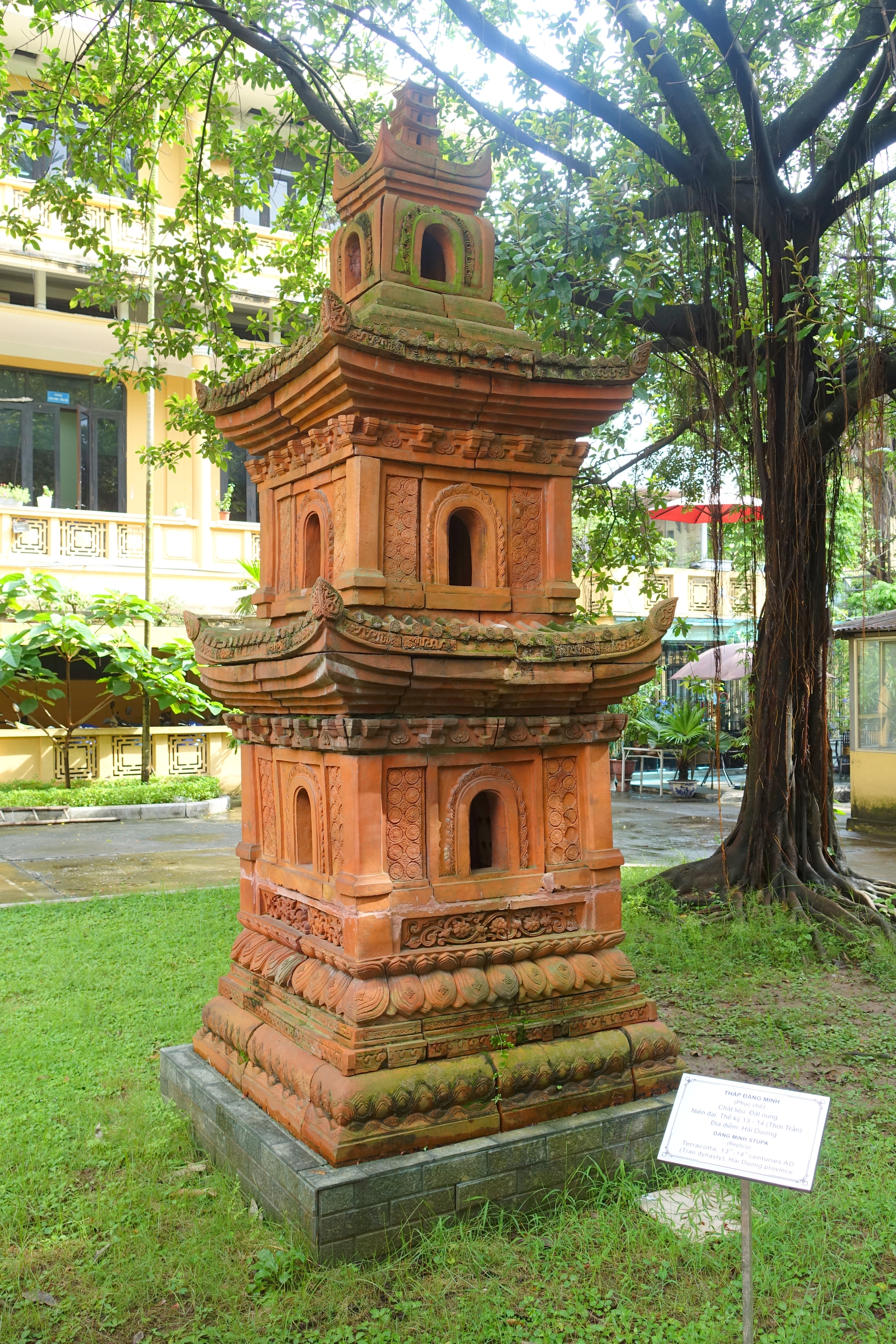 Exhibit in the National Museum of Vietnamese History, Hanoi, Vietnam. This artwork is old enough so that it is in the public domain.